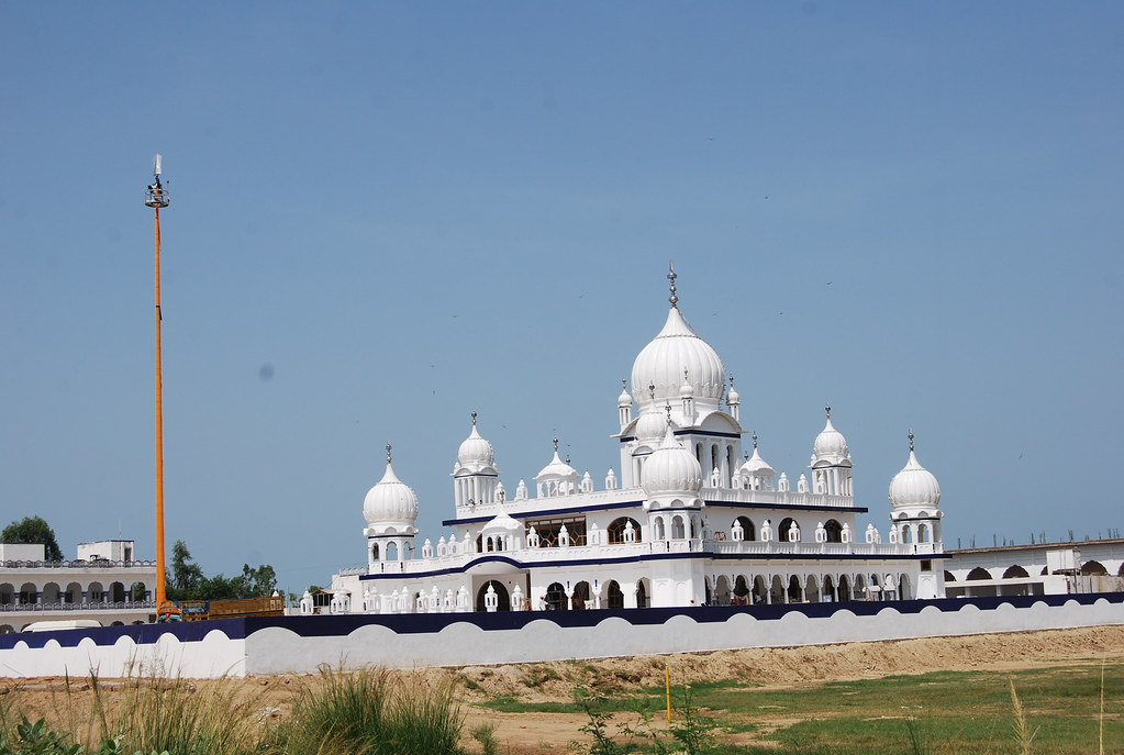 Gurudwara Parmeshar Dwar Sahib